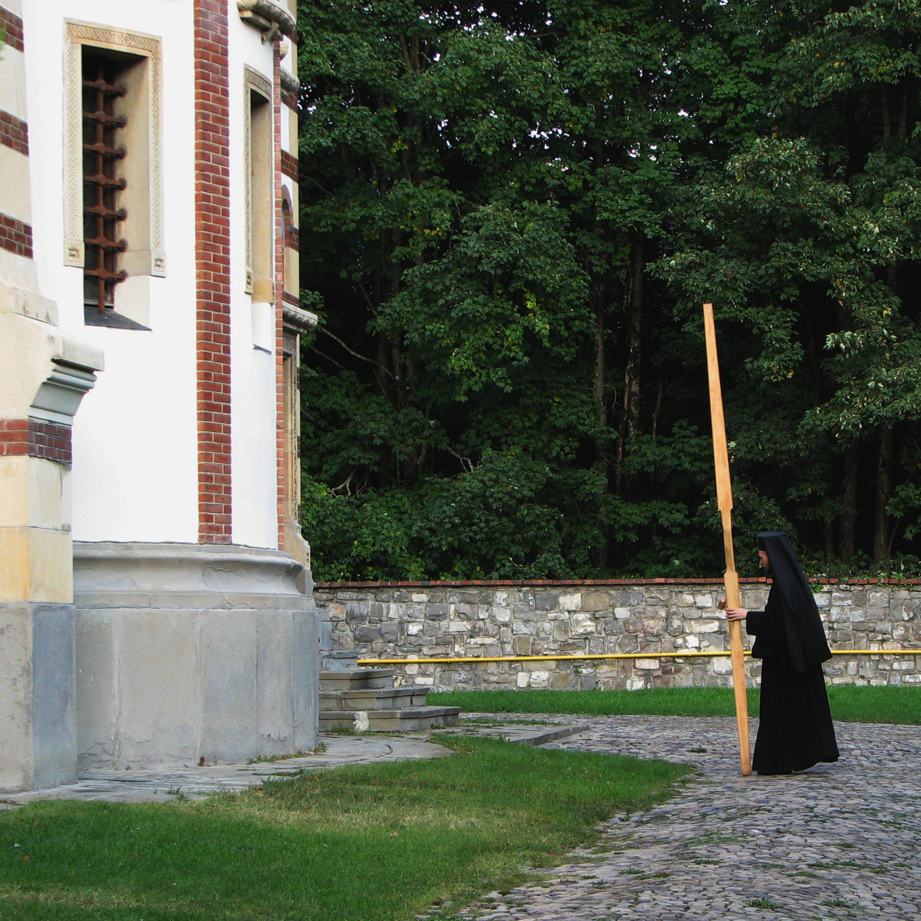 monk with "semantron" Sinaia Monastery